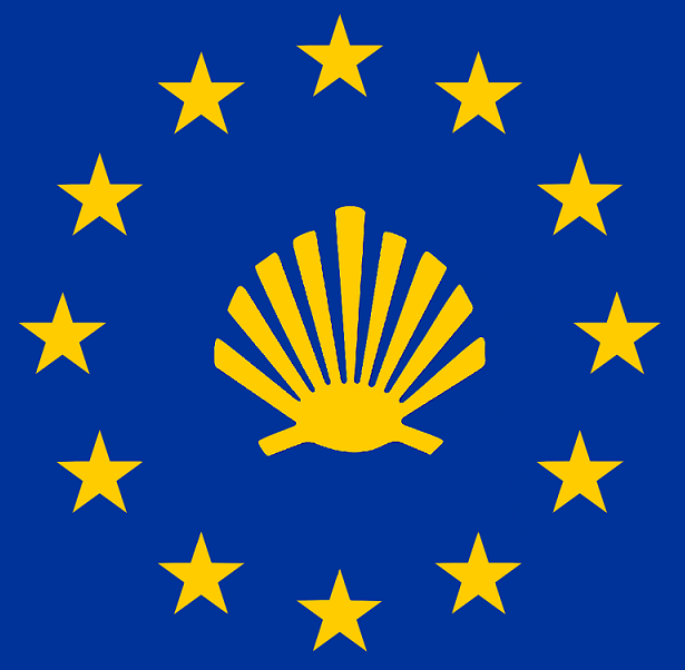 The Lesser Polish Way of Saint James (pilgrim's shell surrounded by stars of EU flag